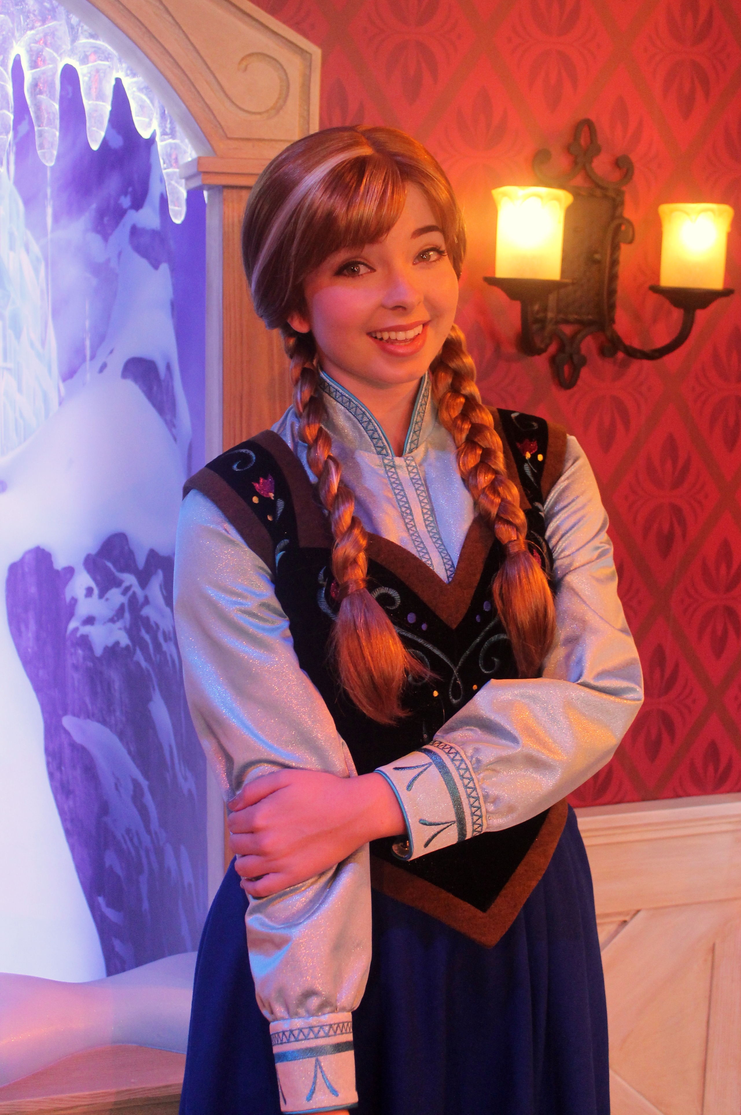 Anna meet-and-greets at Disneyland, November 2013.